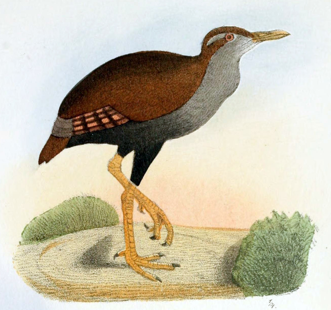 Bar-winged Rail (Nesoclopeus poecilopterus)